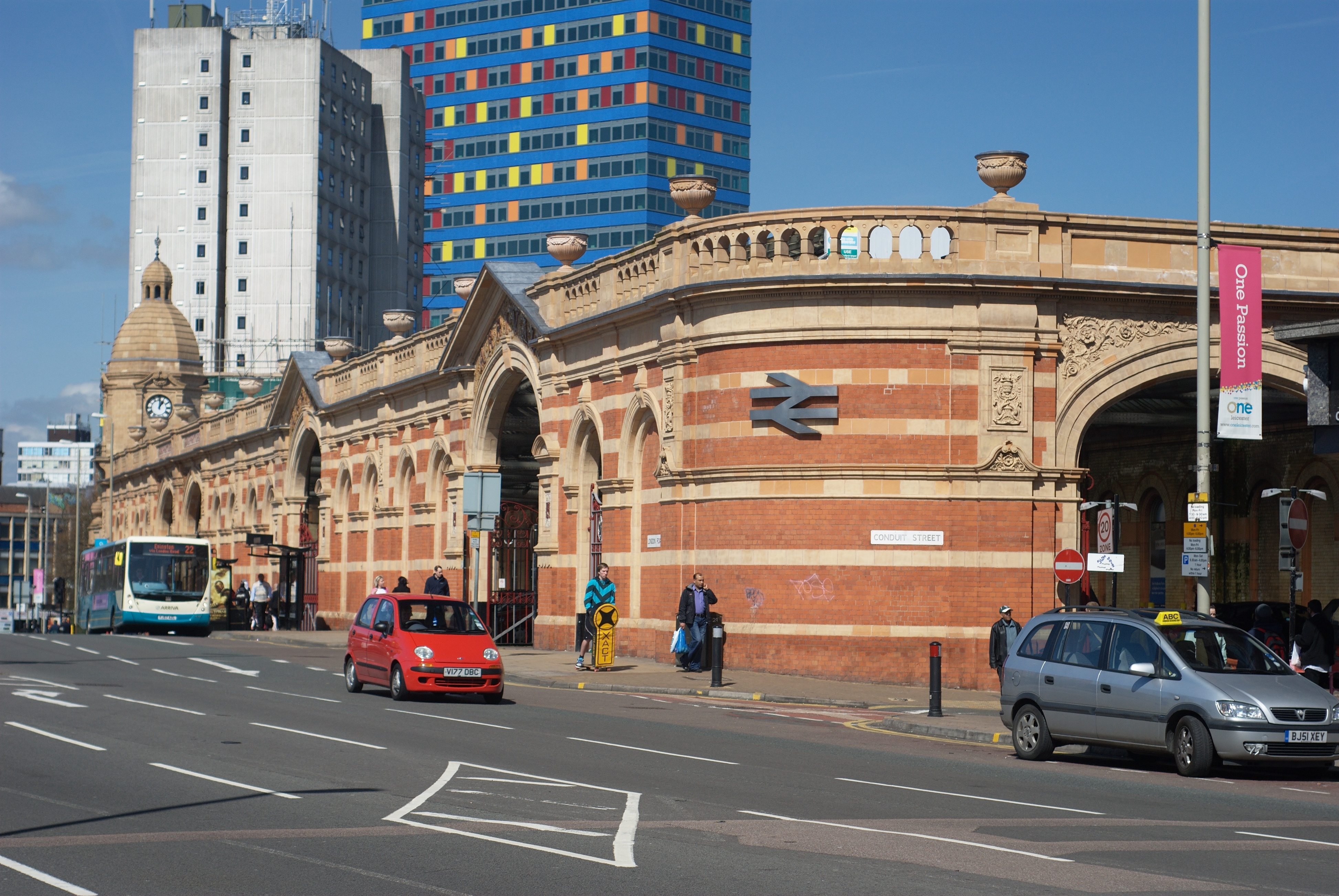 Leicester Railway Station from the south